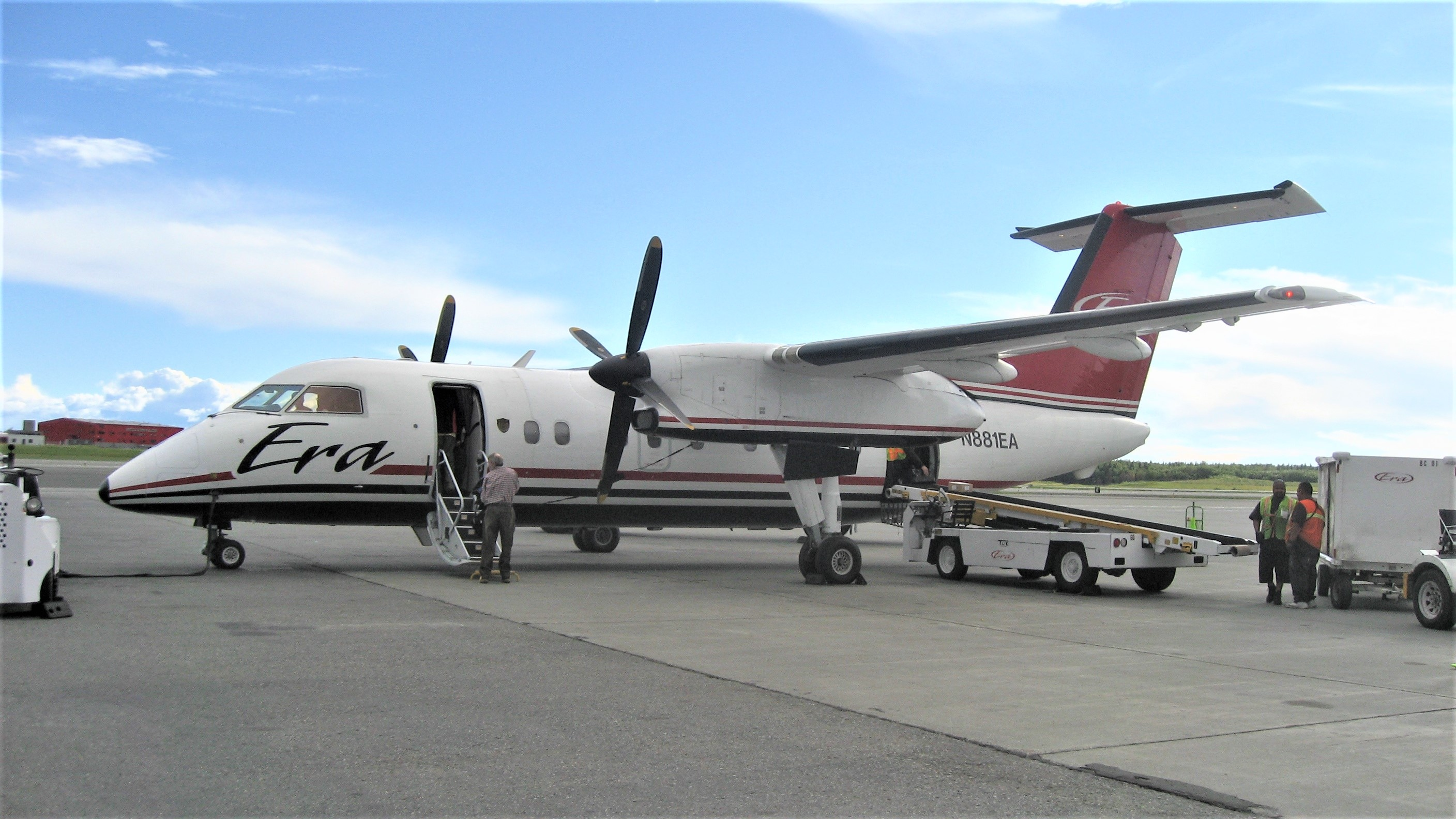 Era Aviation De Havilland Canada DHC-8-100 loading in Alaska, in the summer of 2008